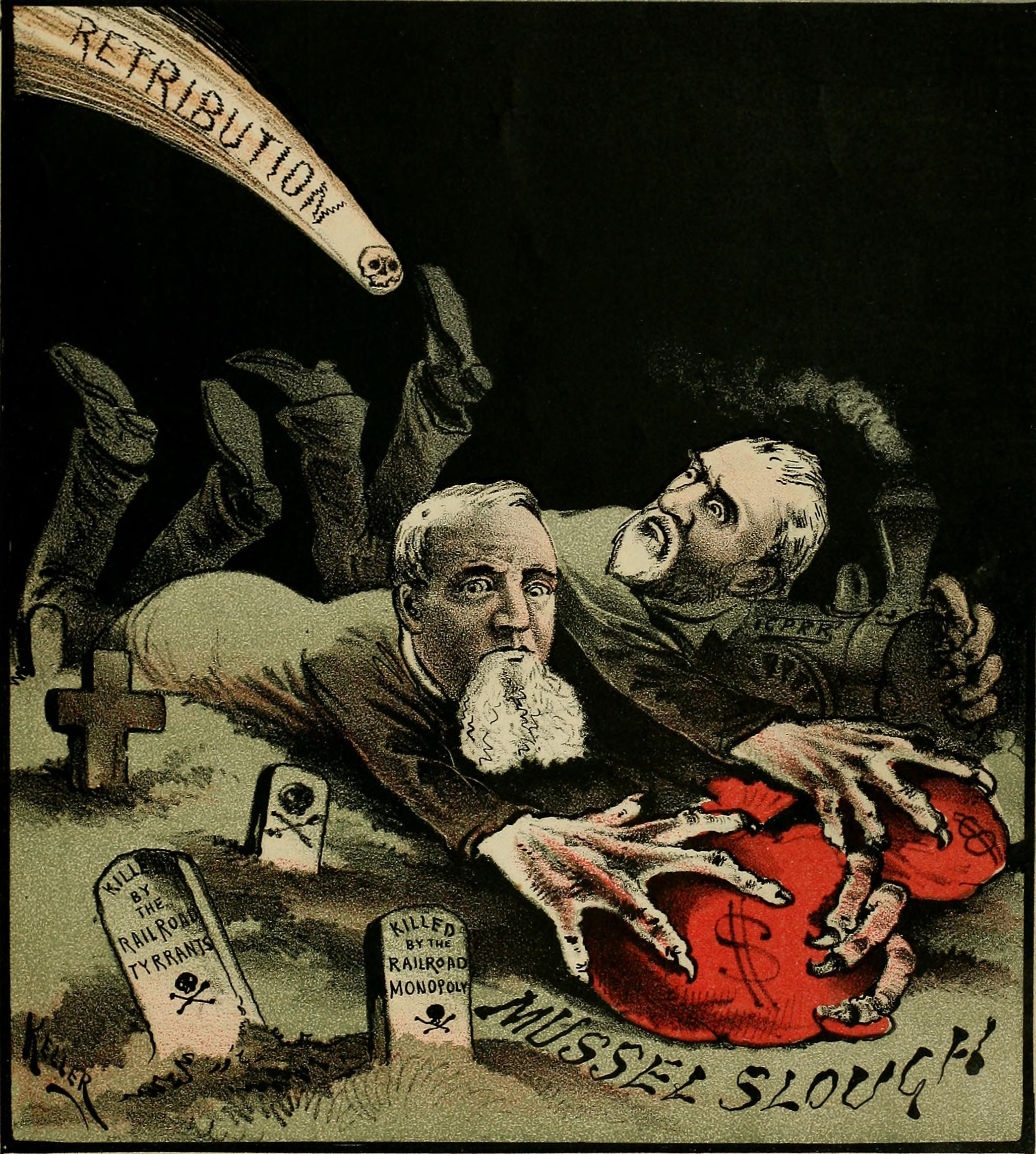 "The Retribution Comet" Editorial cartoon published after the Mussel Slough Tragedy, showing railroad tycoons Charles Crocker (left) and Leland Stanford (Southern Pacific Railroad) as robbing the graves of the Mussel Slough victims. It occurred in 1880, between local settlers and the S.P. Railroad monopoly, just outside Hanford, Kings County, central California. Mussel Slough site is a California Historical Landmark in Kings County.